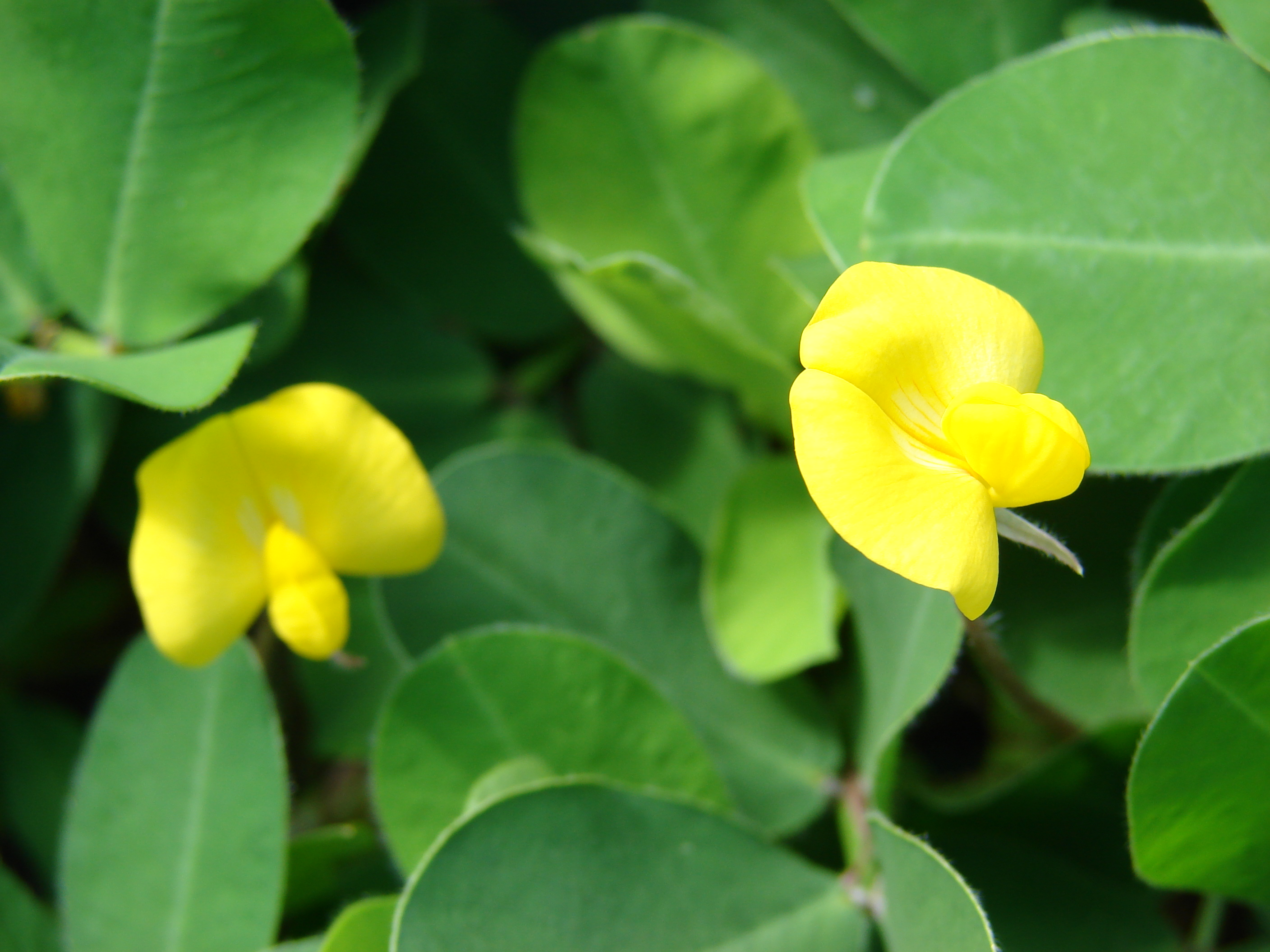 Arachis pintoi (flowers). Location: Maui, Kokomo Rd Haiku